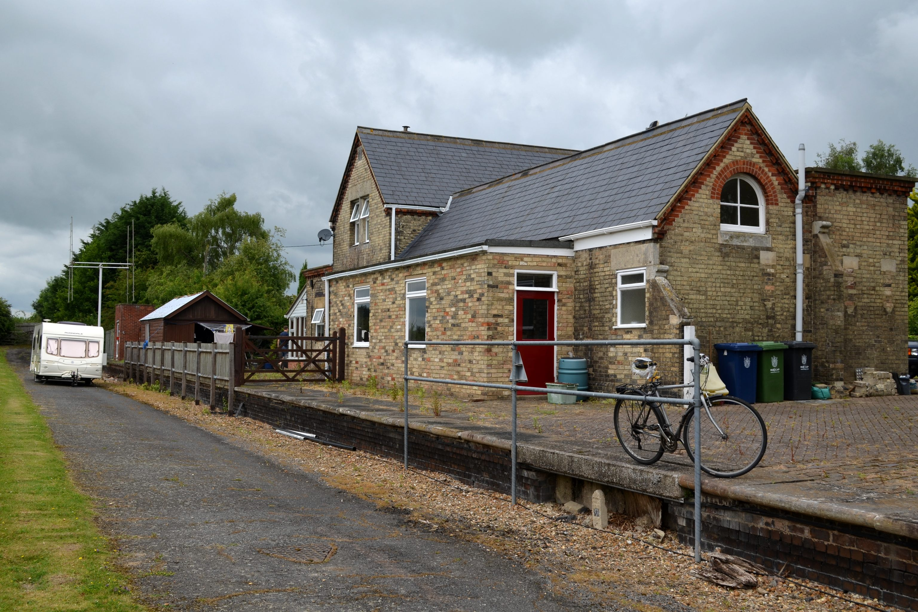 Surviving station house of Lord's Bridge Railway Station at the Mullard Radio Astronomy Observatory, Cambridgeshire in June 2014.